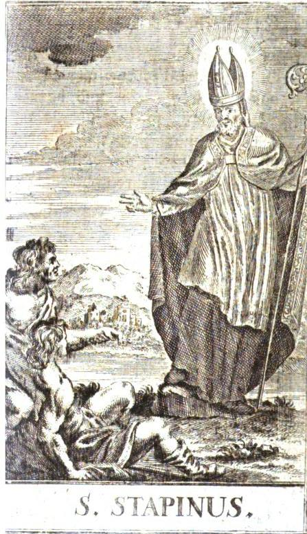 Saint Stapinus, legendary bishop of Carcassonne, France, 7./8. century